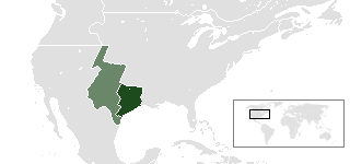 Location of The Republic of Texas (1836–1845) as claimed. Created by Matthew Trump based on blank world maps created by User:Vardion (edited file Image:LocationRepublicOfTexas.png from commons, changing broad-striped disputed area to a solid lighter color, which is easier to see.)